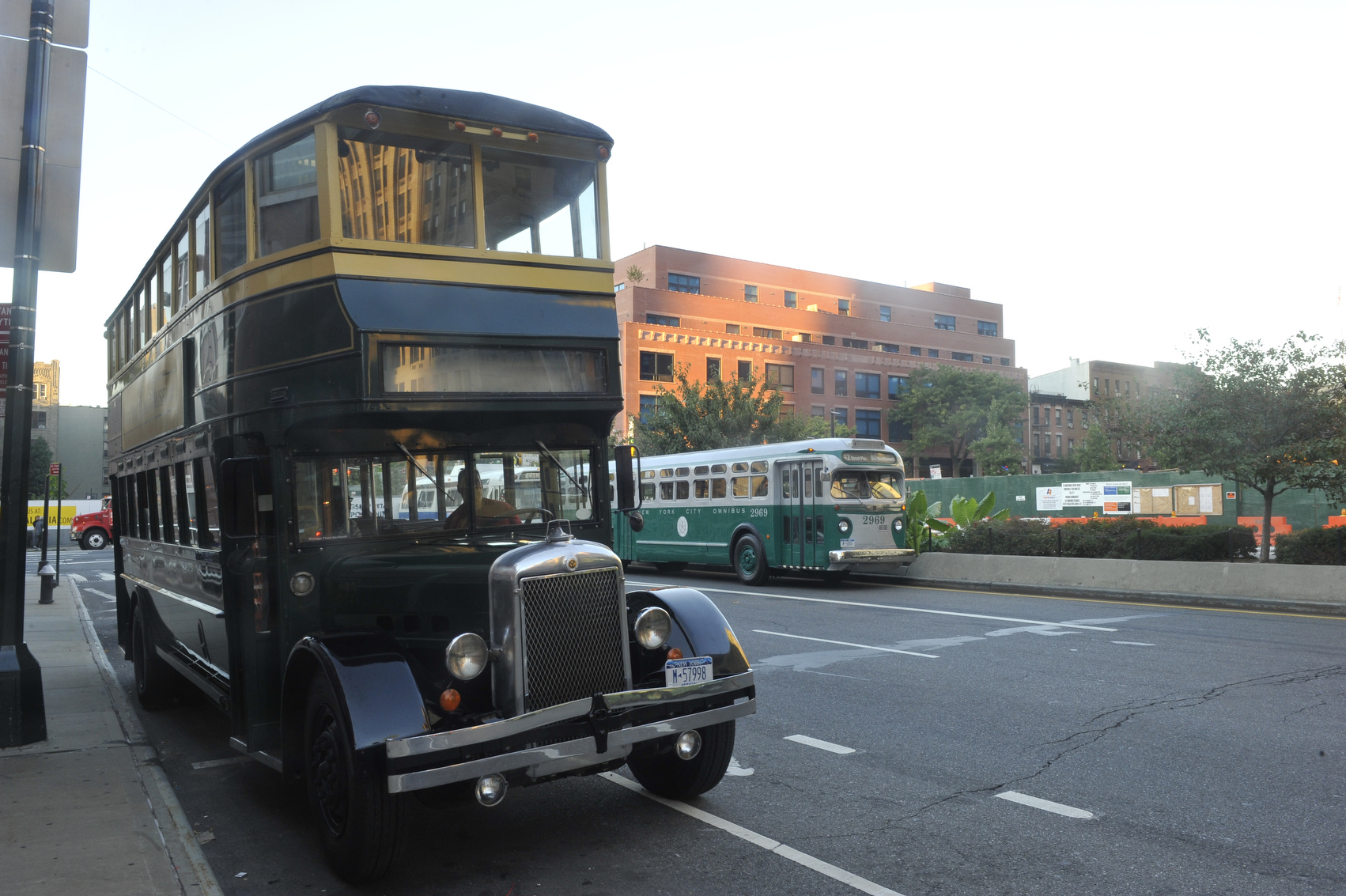 "Betsy," 1931 double-decker Fifth Avenue Coach and 1948 GMC TDH-5101, #2969 lined up early this morning in preparation for the New York Transit Museum Bus Festival, being held in conjunction with the Atlantic Antic. Photo: Marc A. Hermann / MTA New York City Transit